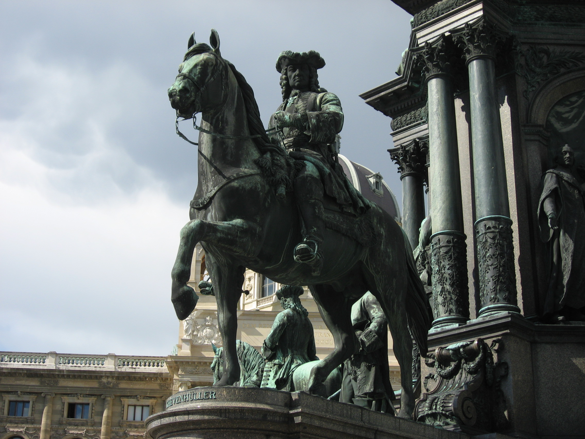 Austria, Vienna, Maria-Theresien-Platz